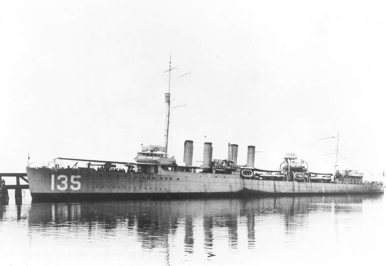 American Wickes class destroyer USS Tillman (DD-135). Was transferred to Britain in 1940 and became HMS Wells (I95).